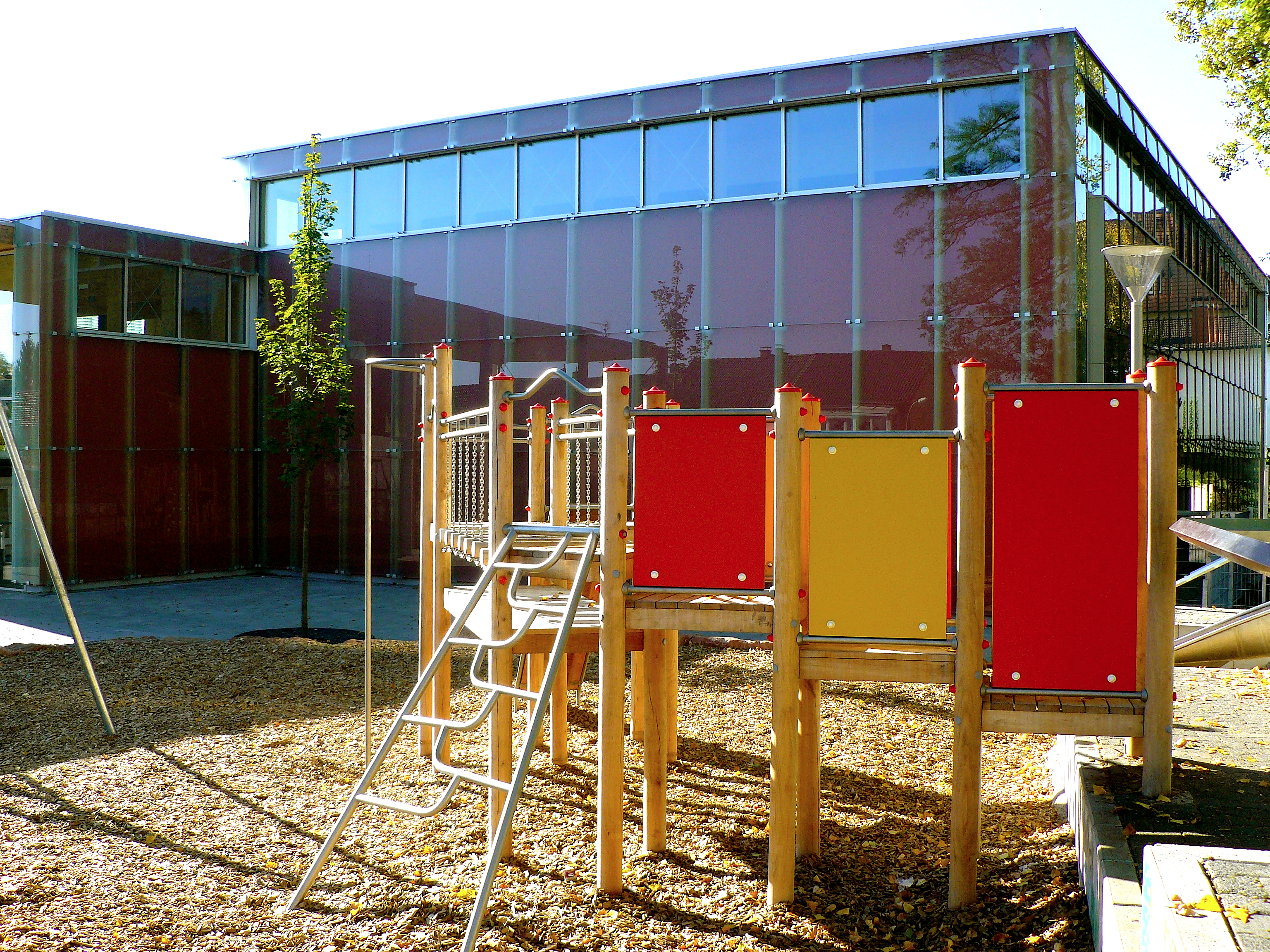 Gym of Zentgrafenschule in Frankfurt-Seckbach, Hesse, Germany (built in 2009/10)